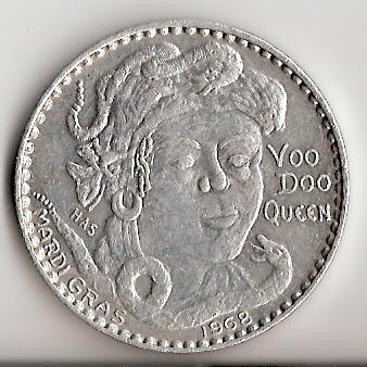 American token used for mardi gras by Zulu Social Aid & Pleasure Club in New Orleans, USA